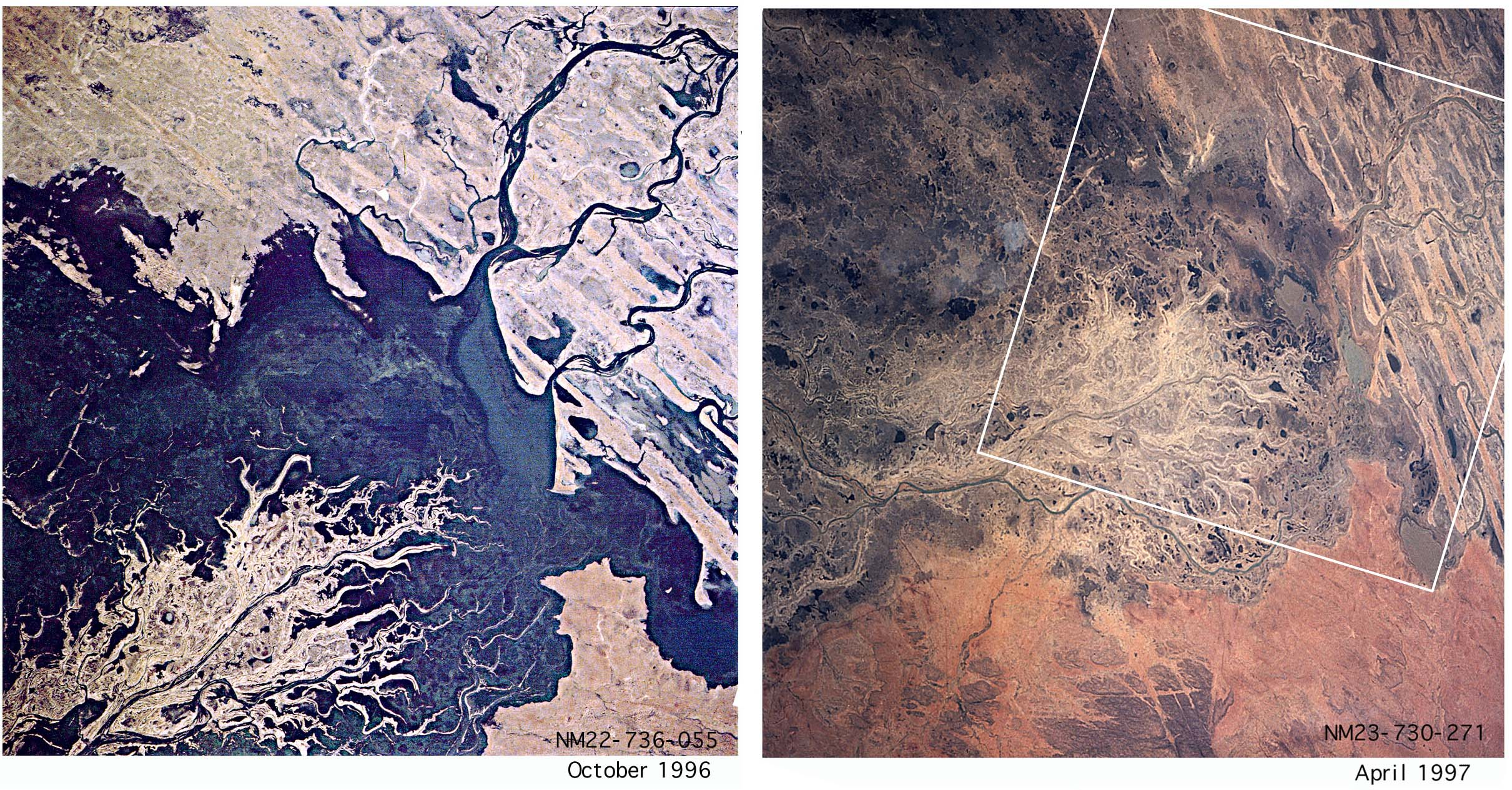 Inland delta of the Niger River. (A) In October 1996 (NASA photograph NM22-736-055) the dark green vegetation is luch when water from the summer rains pass through the region. Although vegetation cover lasts only a few months, it provides a strong visual contrast with the surrounding desert countryside. (B) By April 1997, the wetlands have dried up, and the inland delta is a uniform tan color (NASA photograph NM23-730-271). The white box outlines the area covered by view.